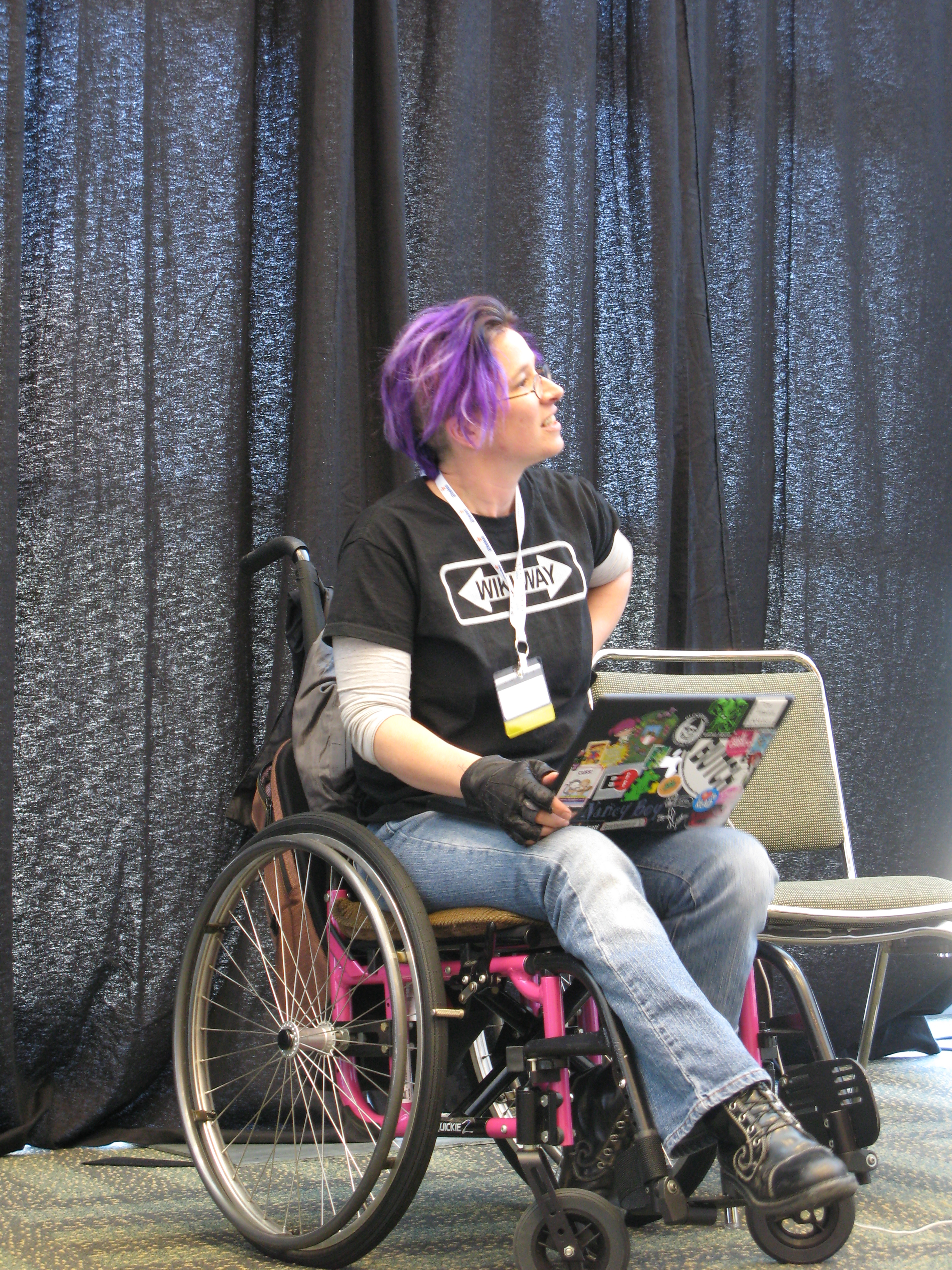 Liz Henry presenting at Web2Open 2007